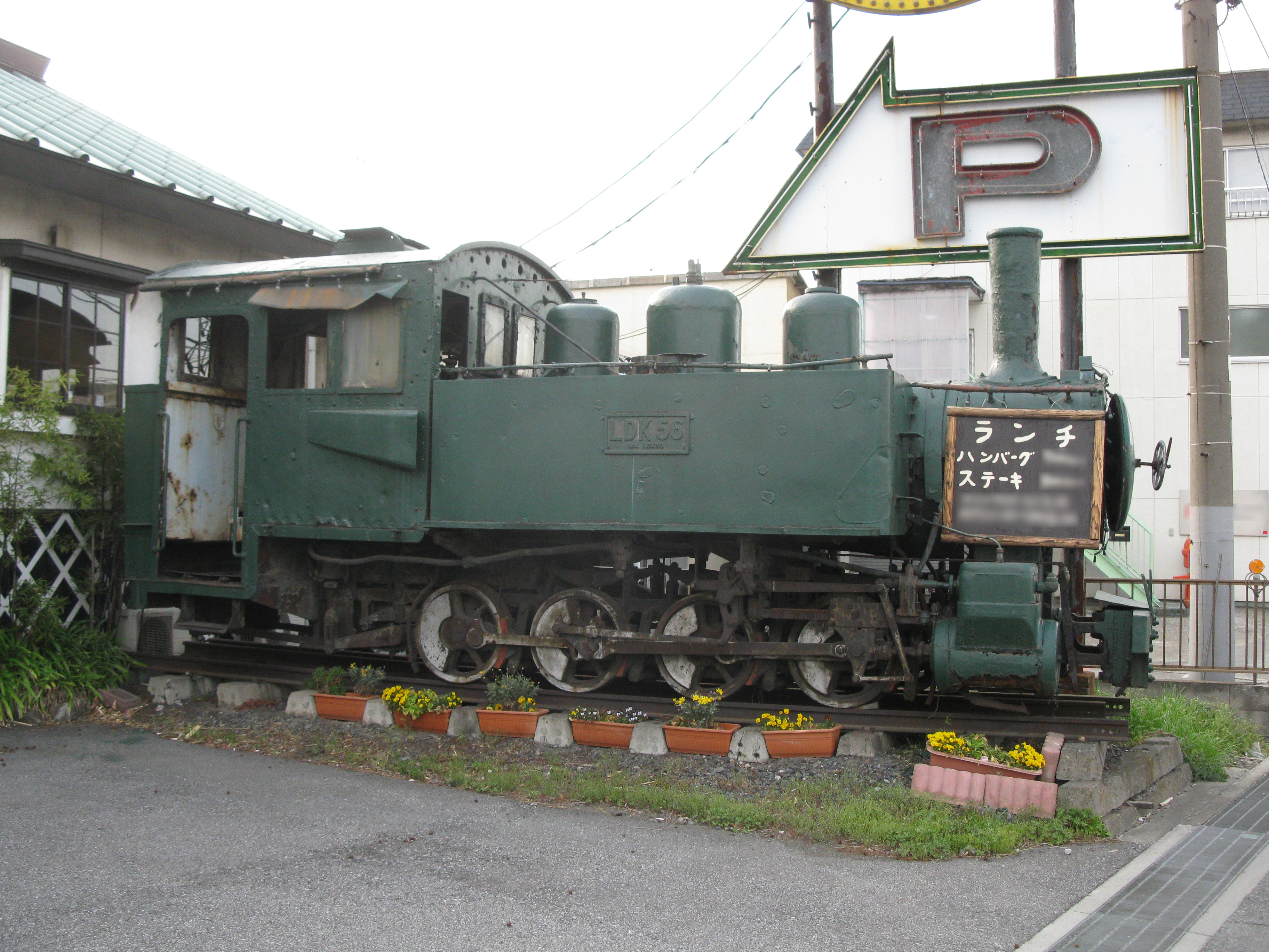 TRA LDK56 (Koshigaya city, Saitama prefecture, Japan)